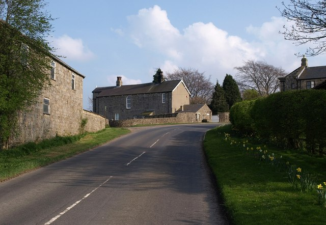 Rowden A hamlet of three farms on Rowden Lane, a hill climbing away from Hampsthwaite and the Nidd valley.